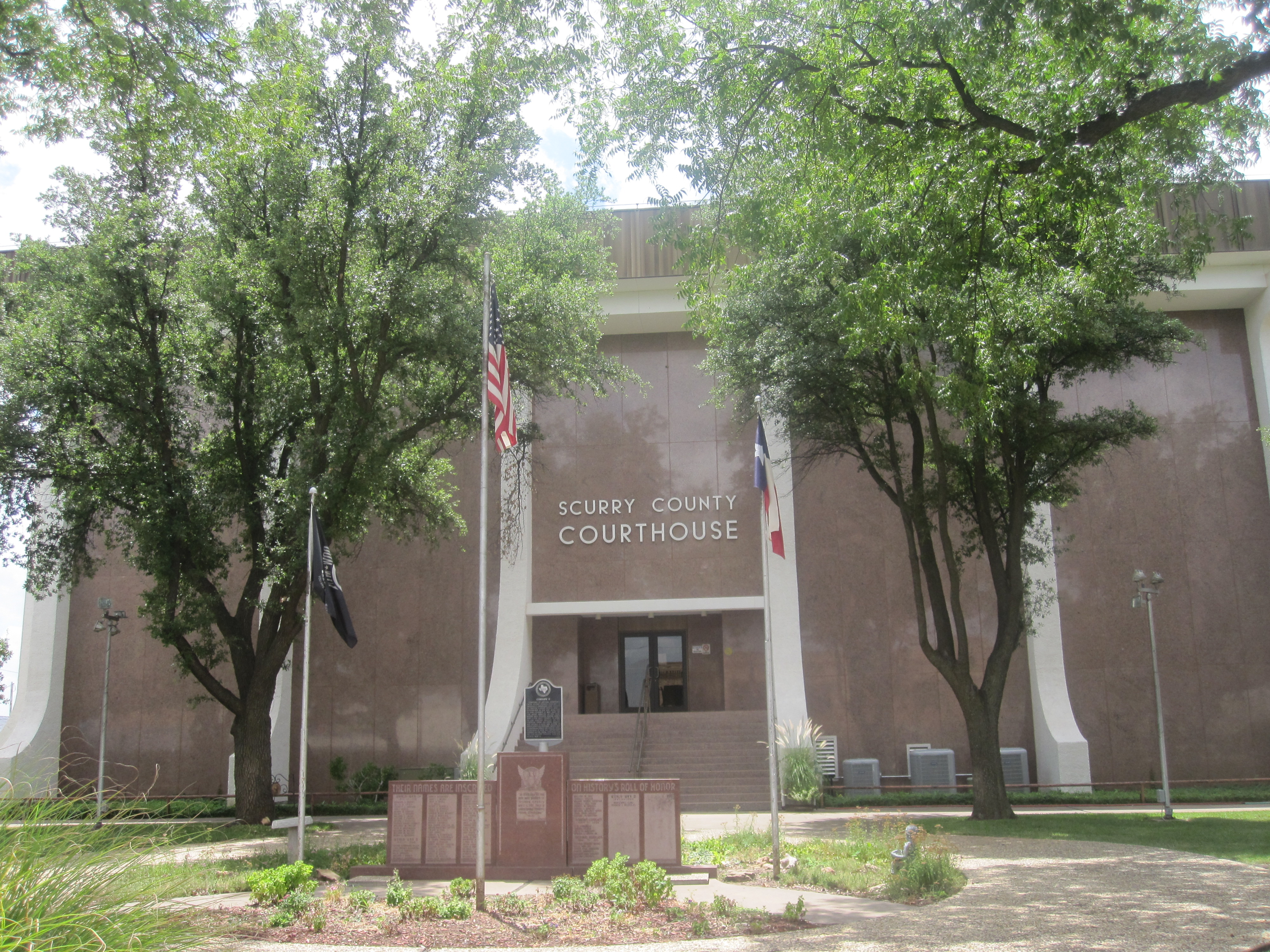 Scurry County Courthouse. I took photo with Canon camera in Snyder, TX.